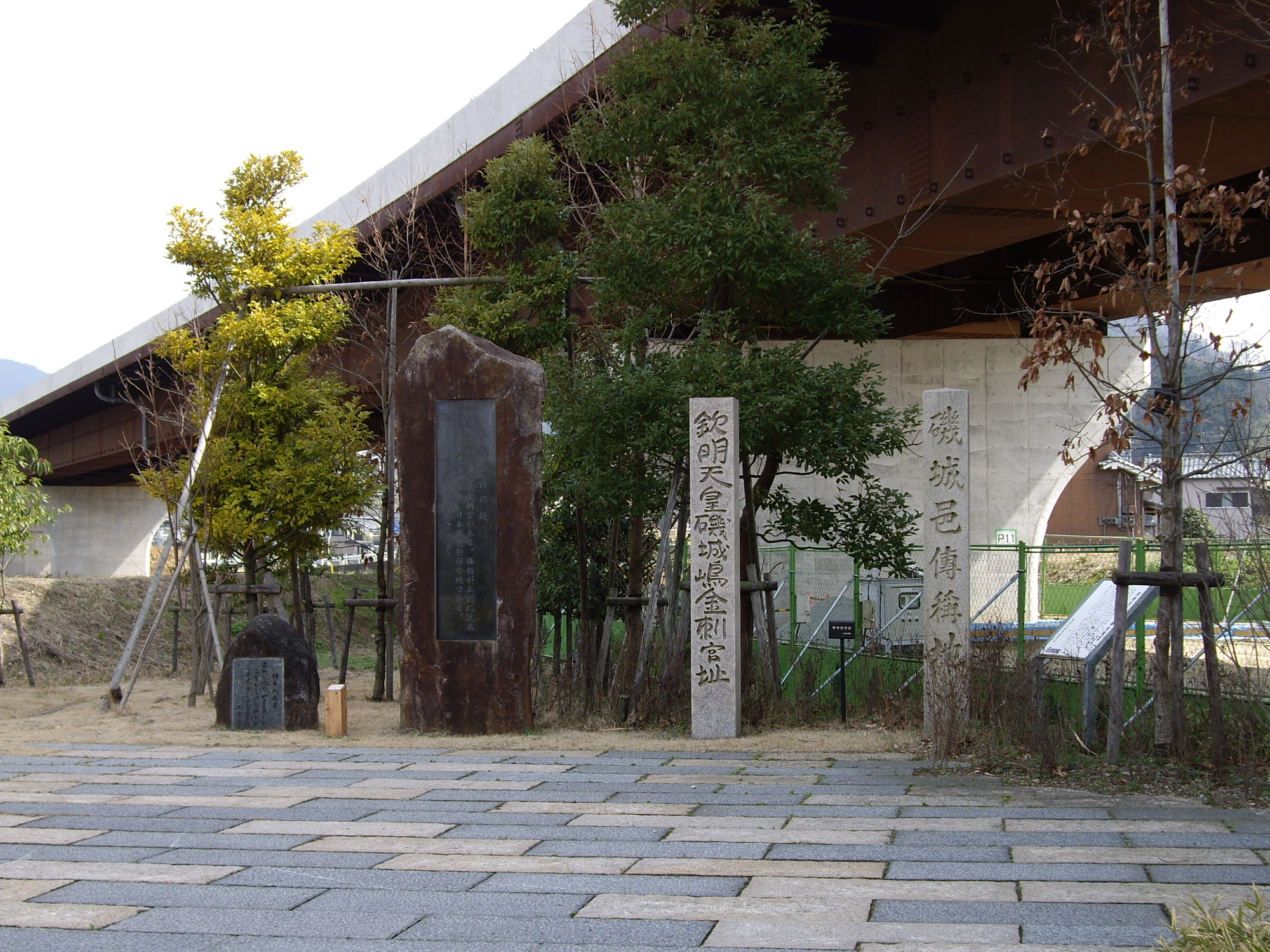 The legendary ruins of Emperor Kinmei's Palace “Shikishima-no-Kanasashi-no-Miya”, in Sakurai, Nara Prefecture, Japan